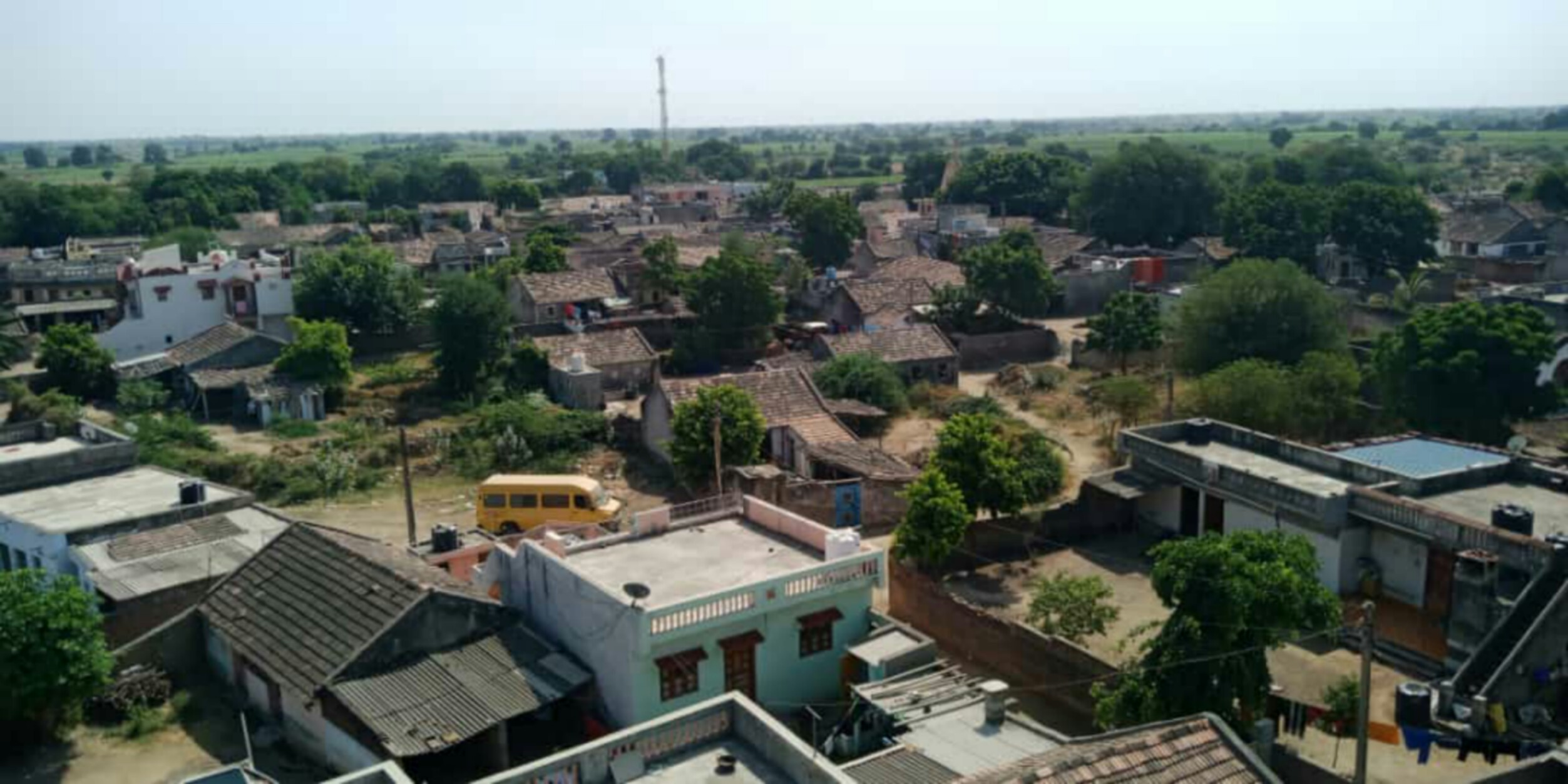 Bird view of Makaji Meghpar old town. ગુજરાતી: મકાજી મેઘપરના જુના ગામનો પક્ષીની દ્રષ્ટીએ નજારો.